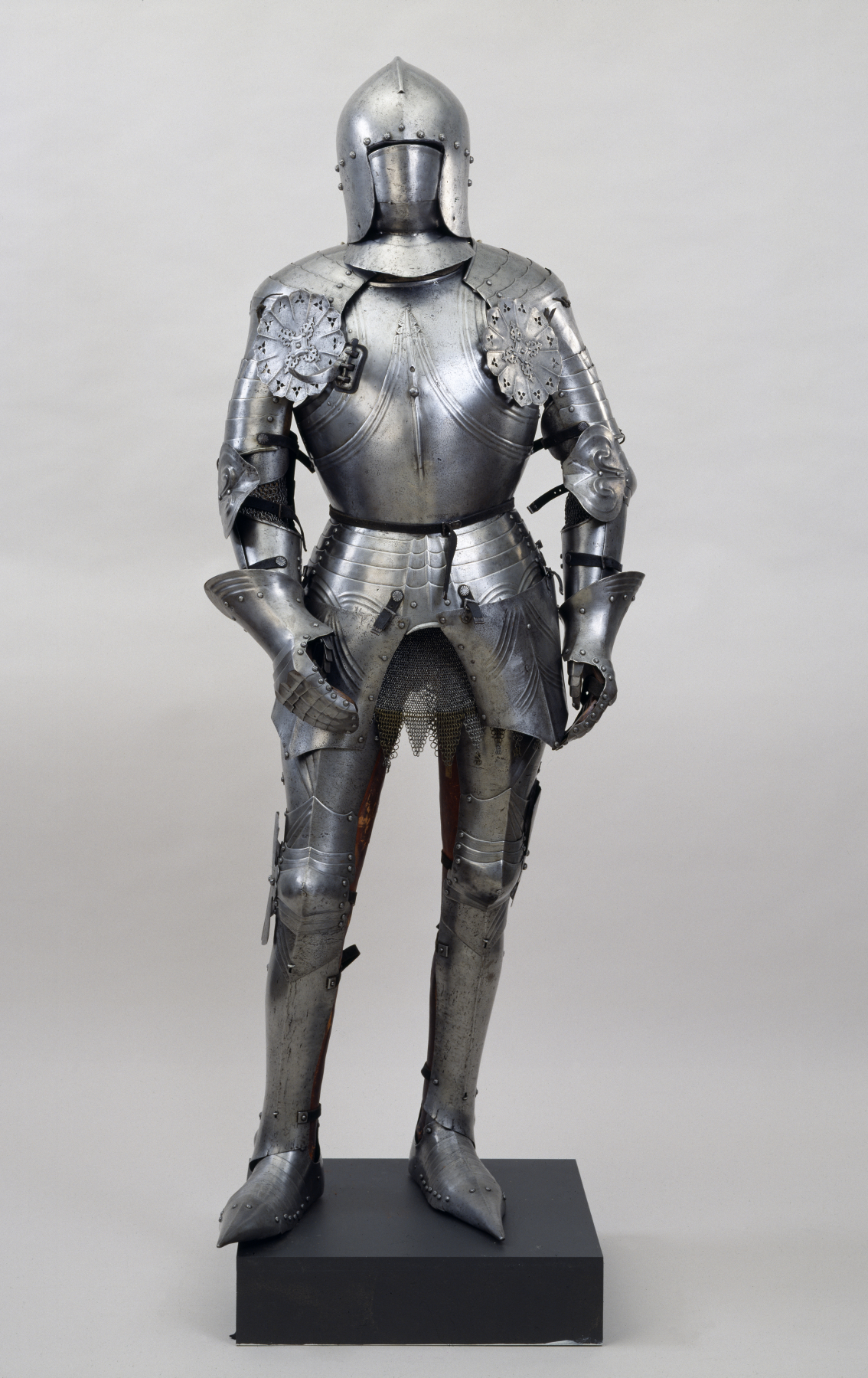 An open helmet, such as the sallet (from the Italian celata, "head covering"), which does not encase the head or fasten to the armor, is cooler and allows the wearer to turn his head easily. However, the weight-here 6 lb. 3 oz.-is not distributed onto the shoulders but is borne entirely by the head and neck. The tiny holes are for rivets that attached a cloth lining. This style of sallet, fitted closer to the head than the German form seen nearby, was developed in Venice, but this example was produced in Milan, a center for the highest quality armor.